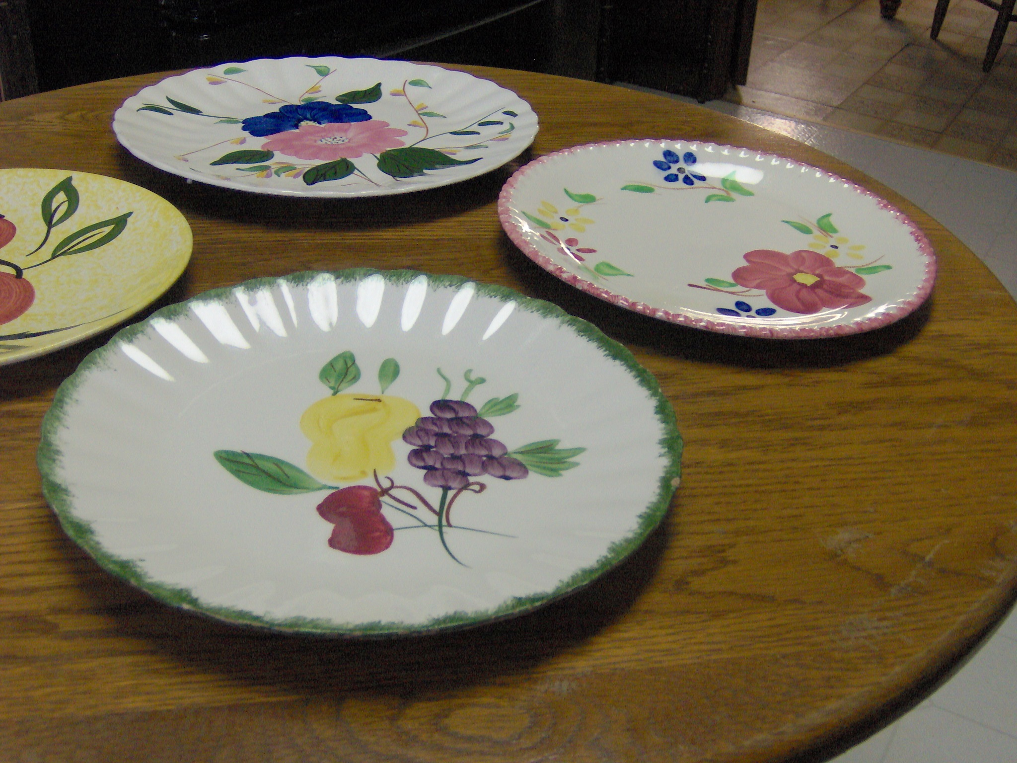 Typical examples of Blue Ridge china, manufactured by Southern Potteries, Incorporated in the 1930s, 1940s, and 1950s. Special thanks to Highway 411S Antiques in Maryville, Tennessee for providing me with these examples.